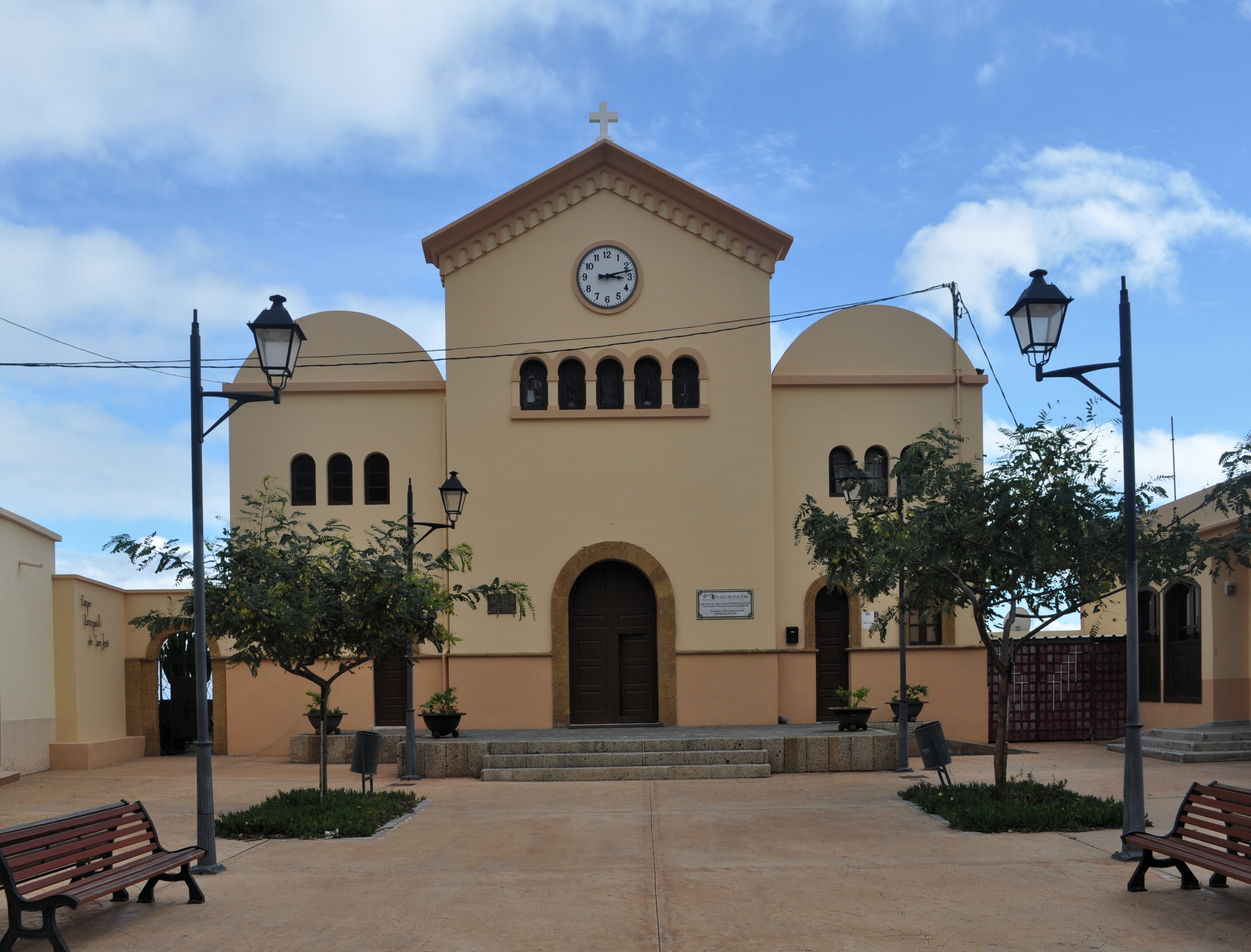 Church in El Escobonal, Tenerife